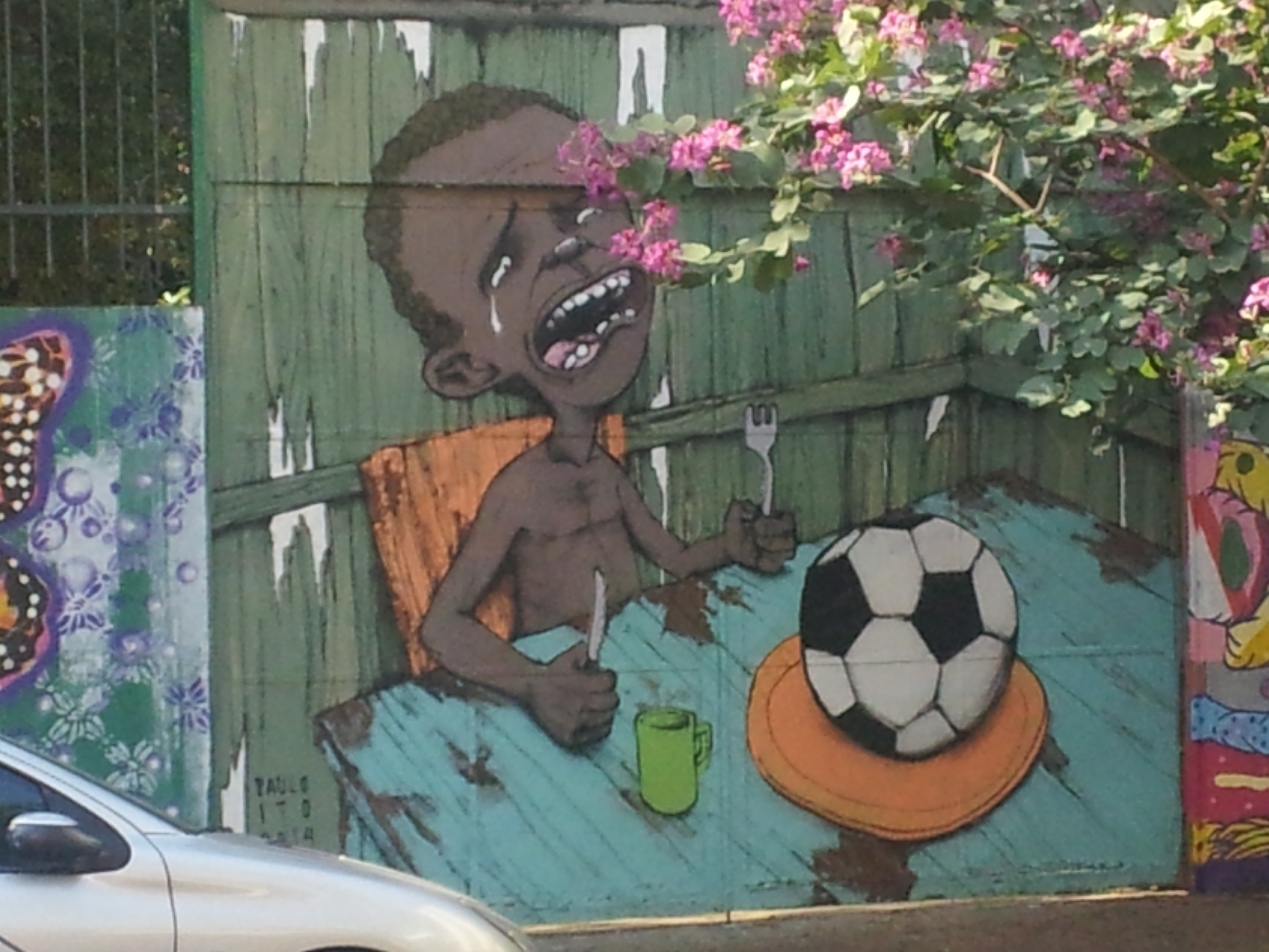 Graffiti by Paulo Ito in Rua Padre Chico 50, São Paulo, Brazil.